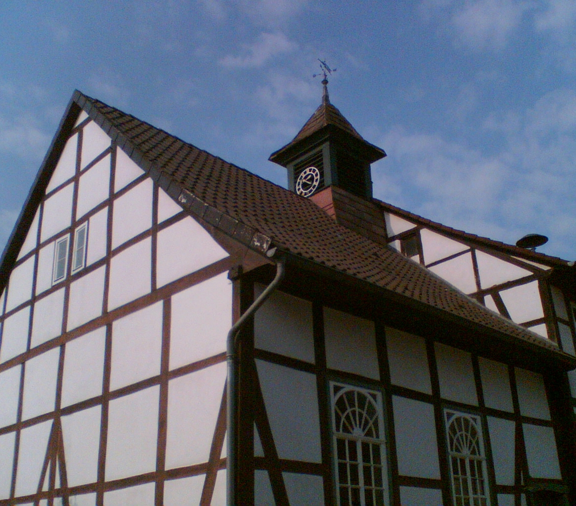 bell tower on timber-frame house in Deitersen Germany